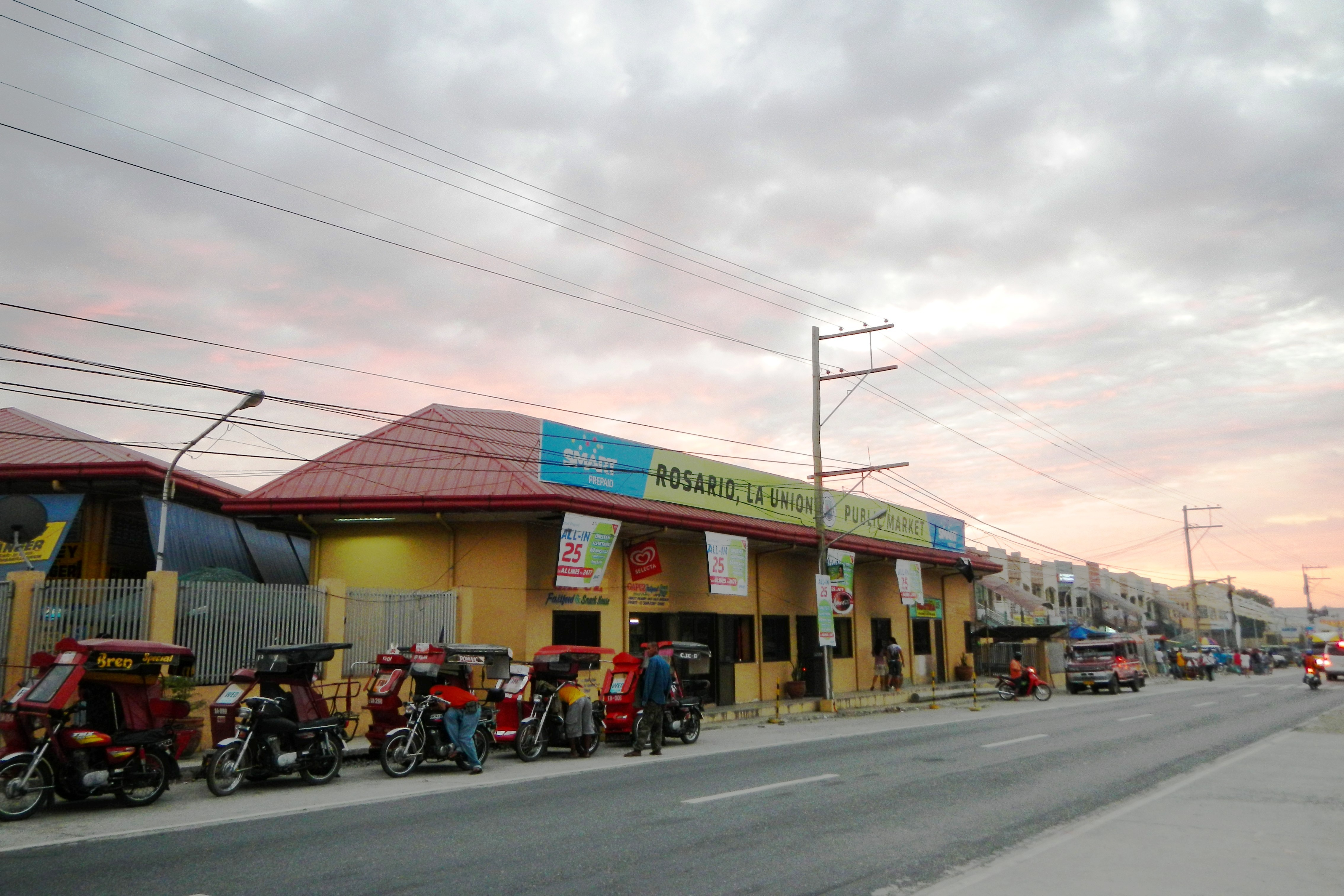 Rosario, La Union[1]